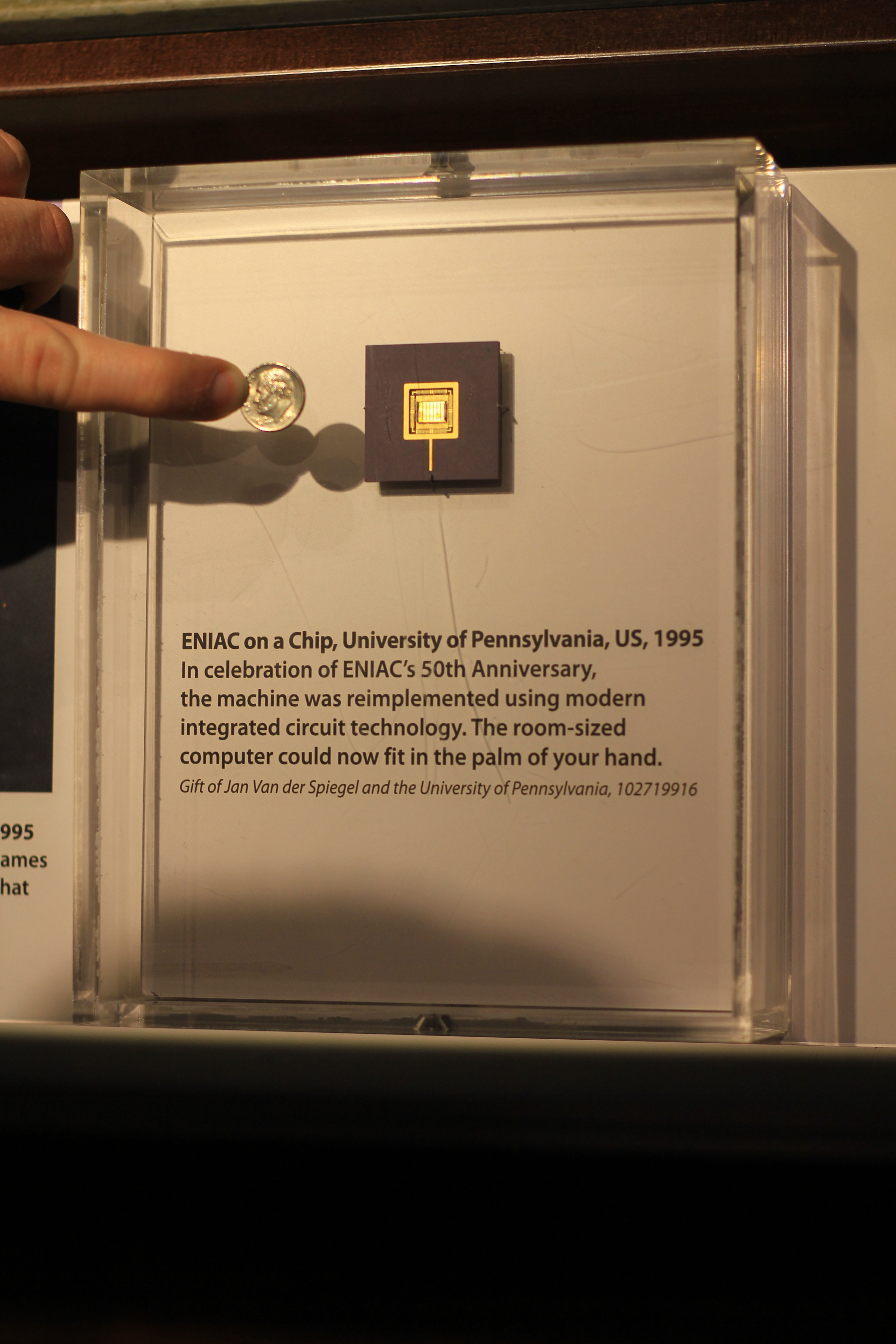 ENIAC on a Chip from 1995 -- dime for size comparison. The original ENIAC was of course known for being a room-sized machine.